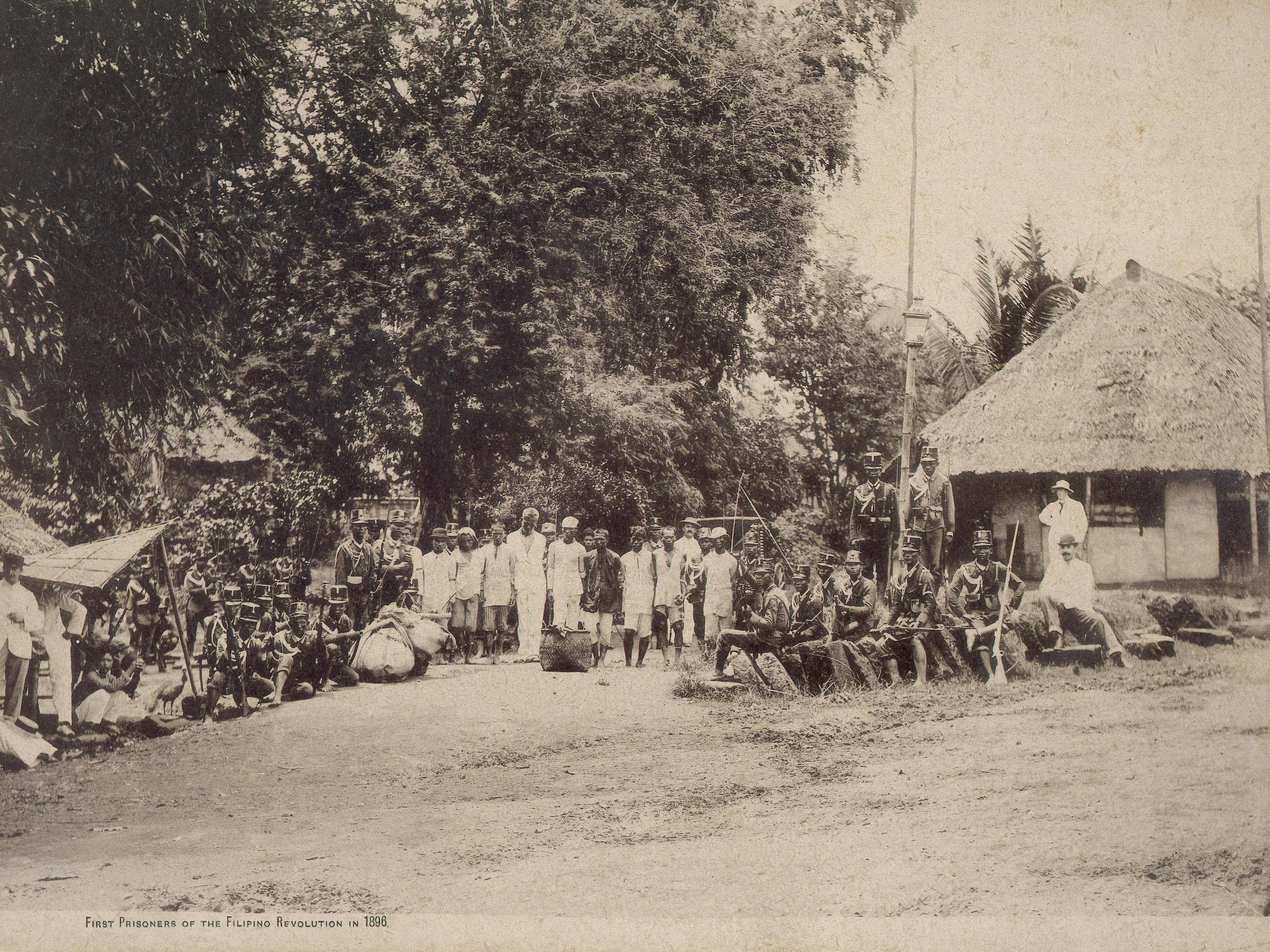 The first prisoners of the Filipino revolution in 1896.